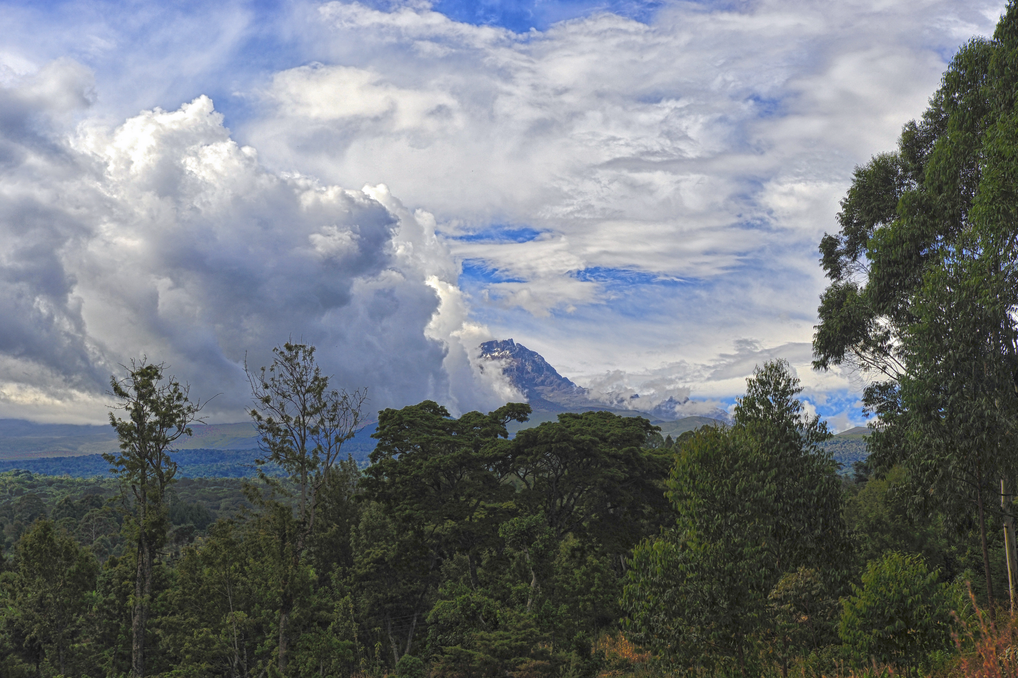 Mount Kilimanjaro peeking through the clouds